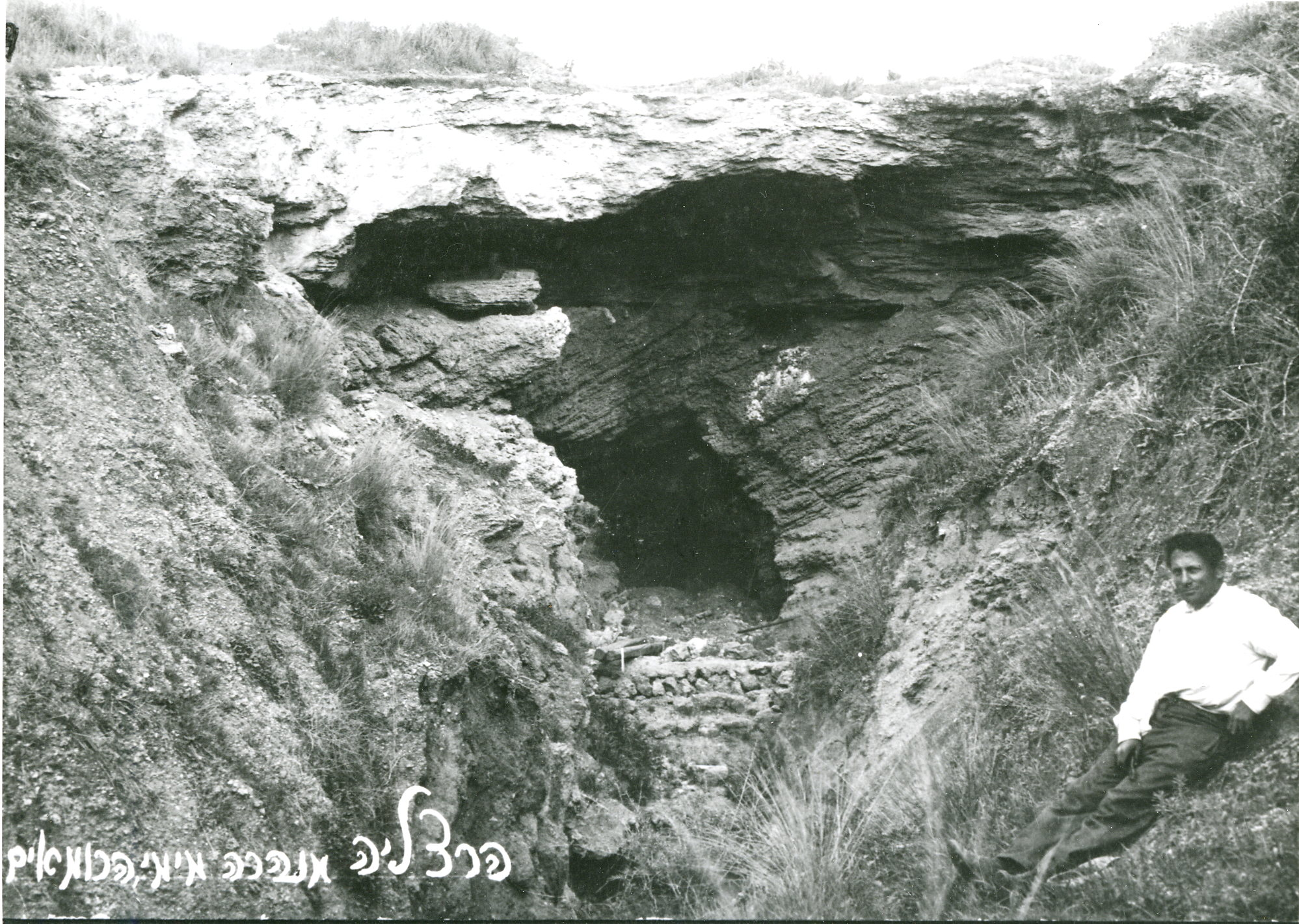 Settlements in Israel